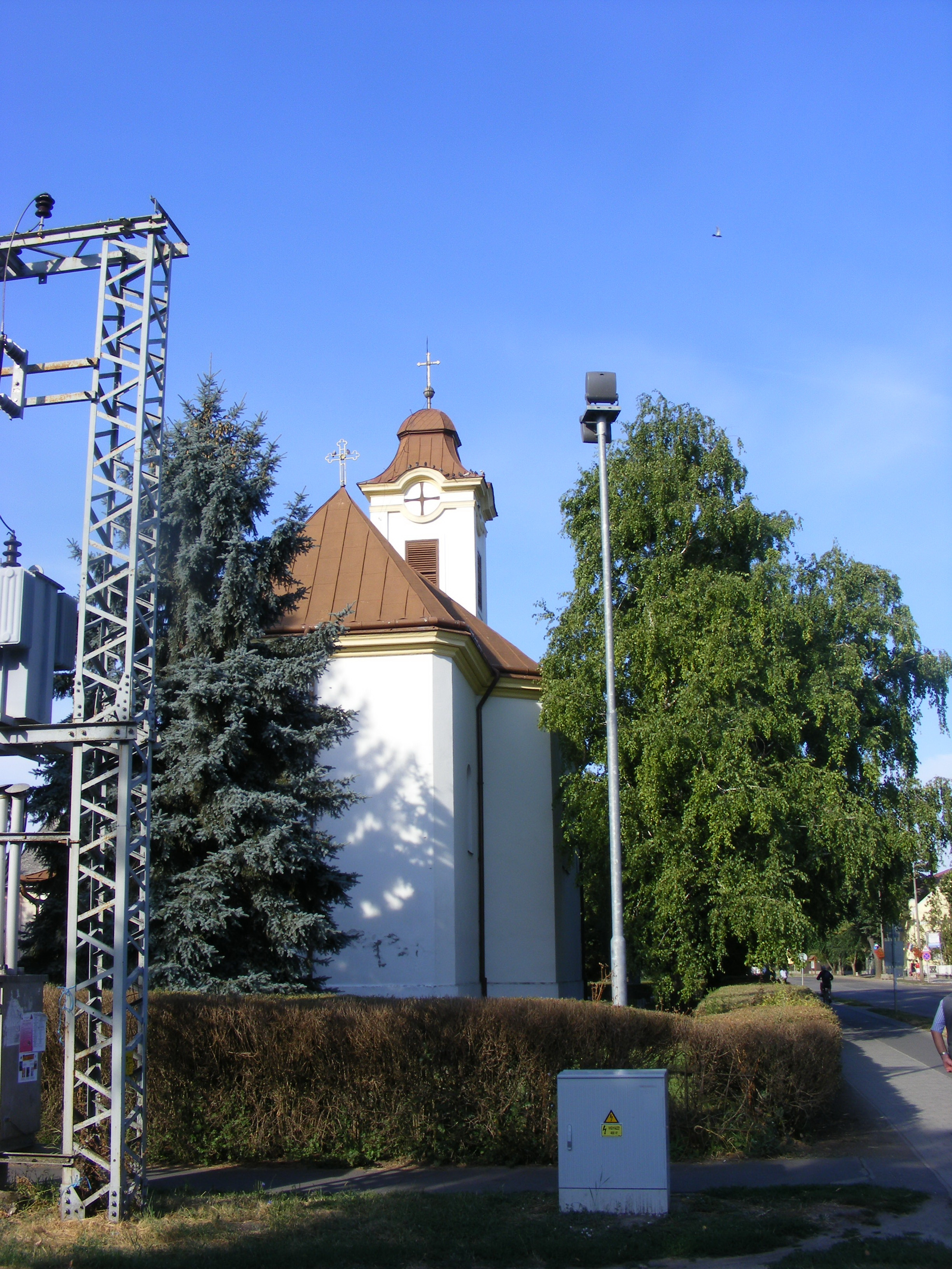 The romano-catholic church in Nádudvar.